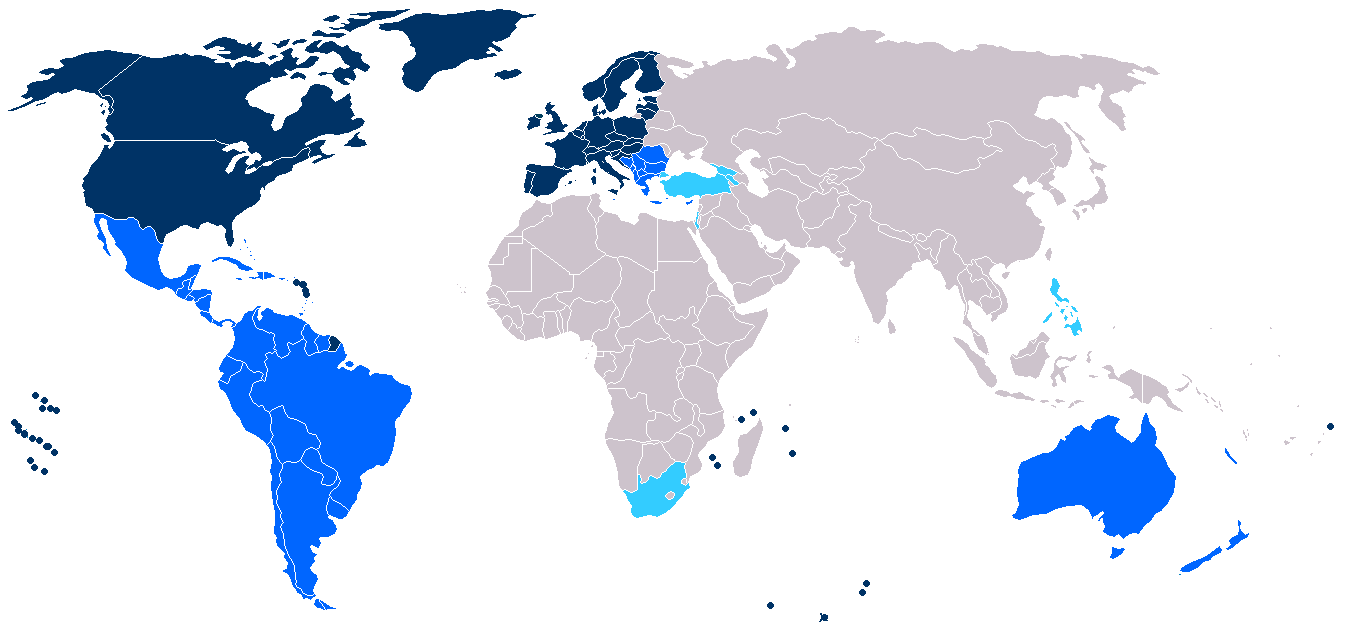 Western culture (including Philippines) stricto sensu not included in all definitions sometimes included